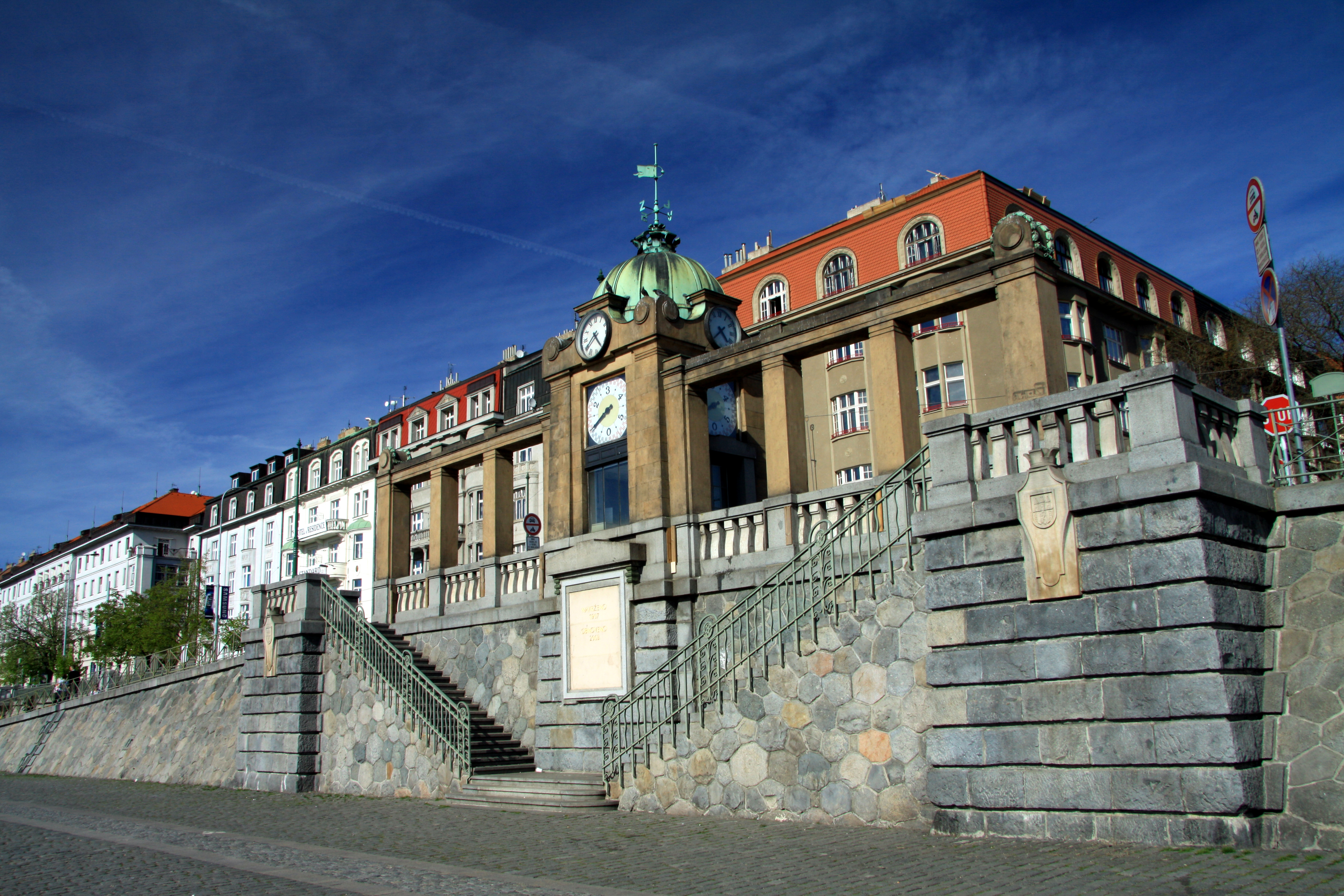 Limnigraph in Výtoň in Prague, Czech Republic - Google Maps - Google Earth